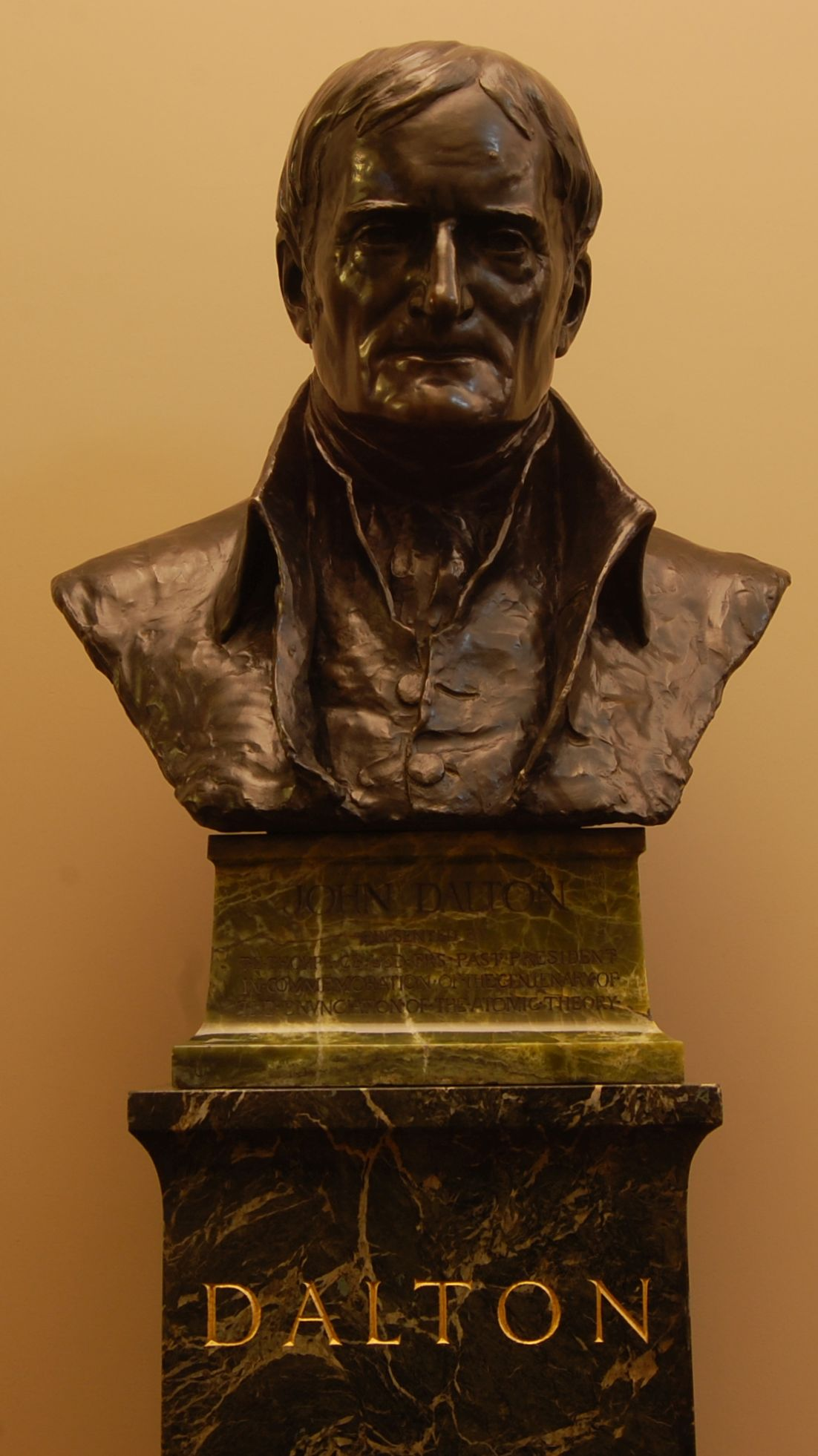 Bust of John Dalton, in the collection of the Royal Society of Chemistry, at it's Burlington House, London, headquarters.